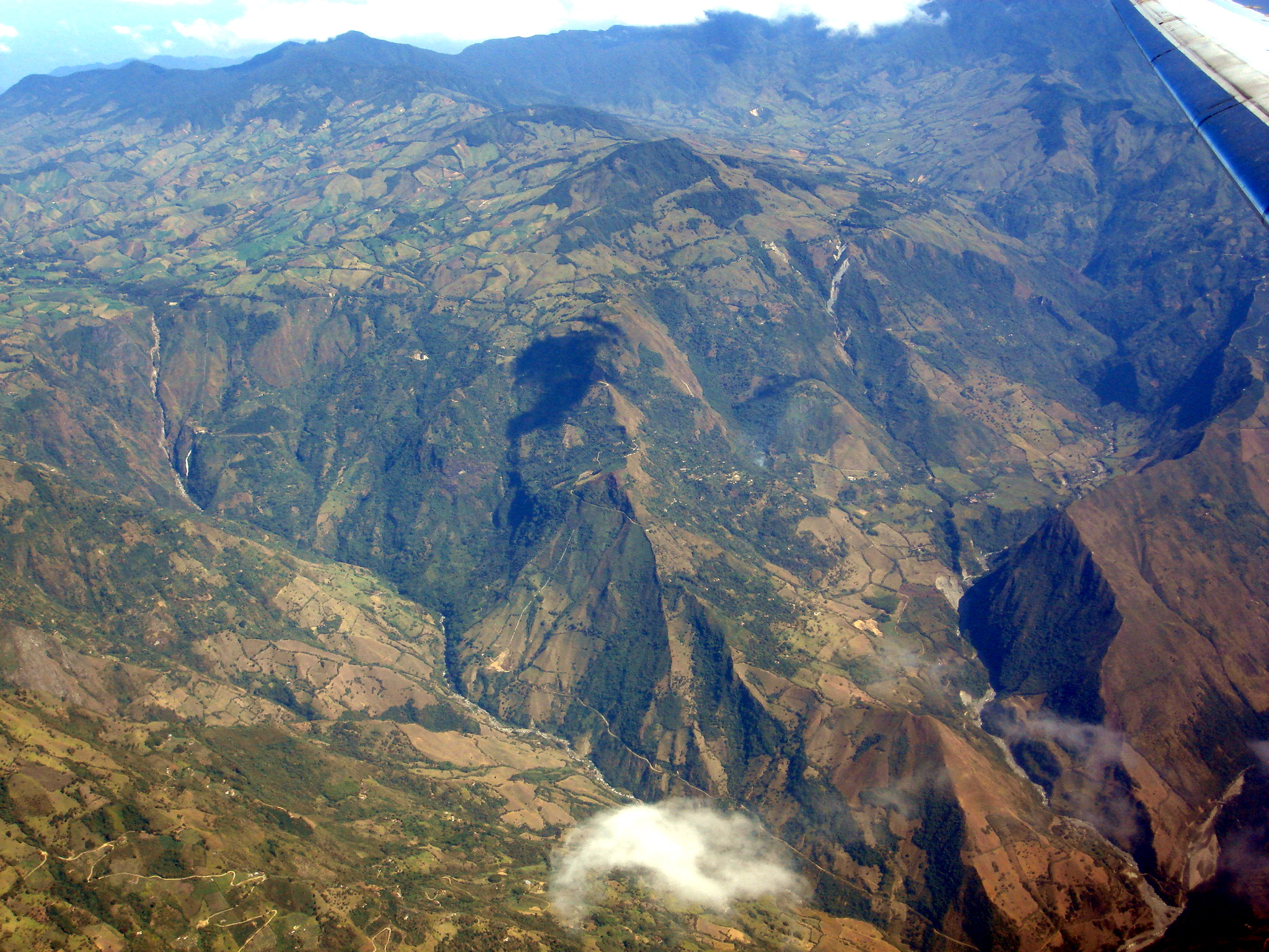 Rio Arma, Rio Sirgua, Rio Sonsón, Paramo de Sonsón Antioquia. Colombia